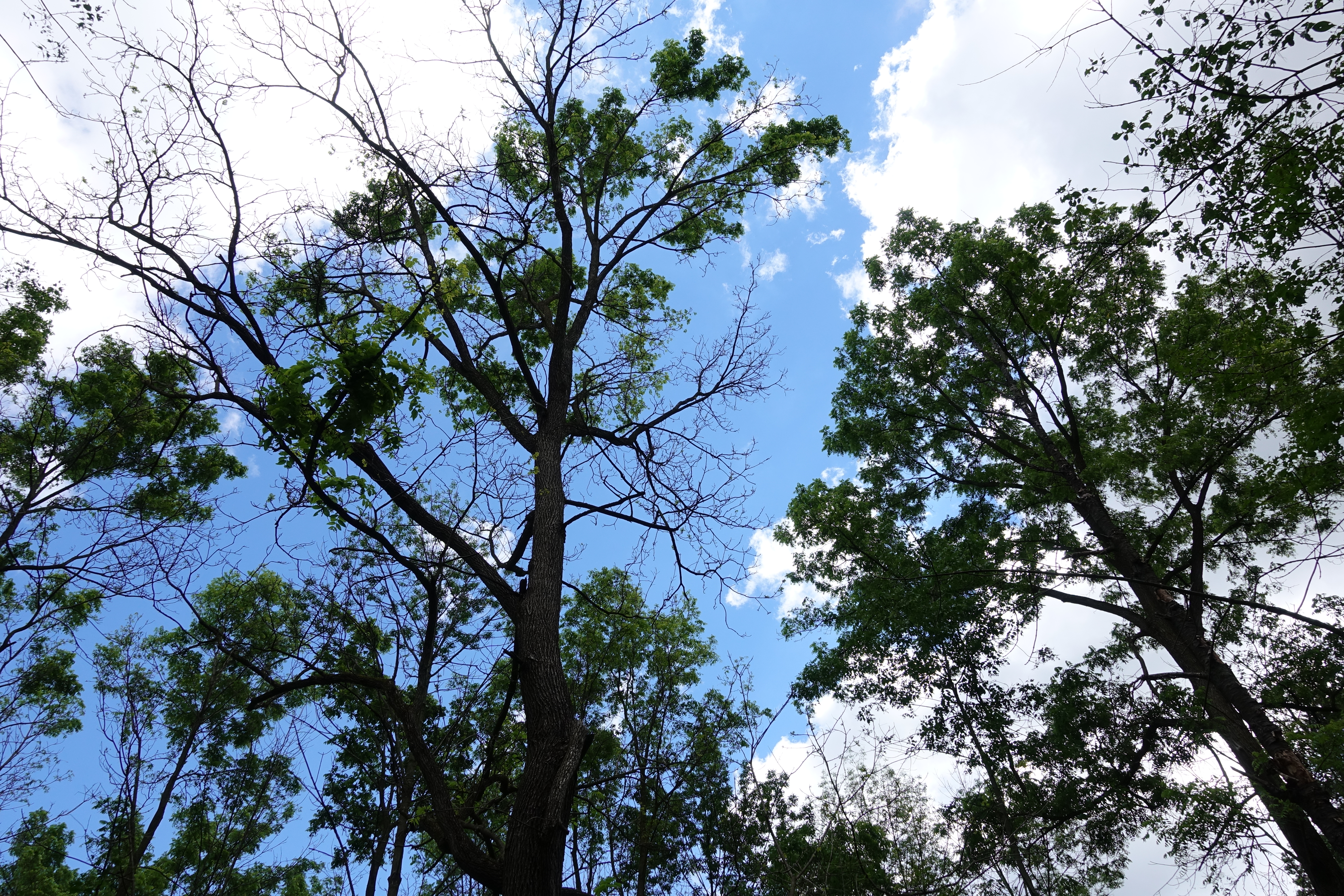 The slow death of an ash tree from the emerald ash borer